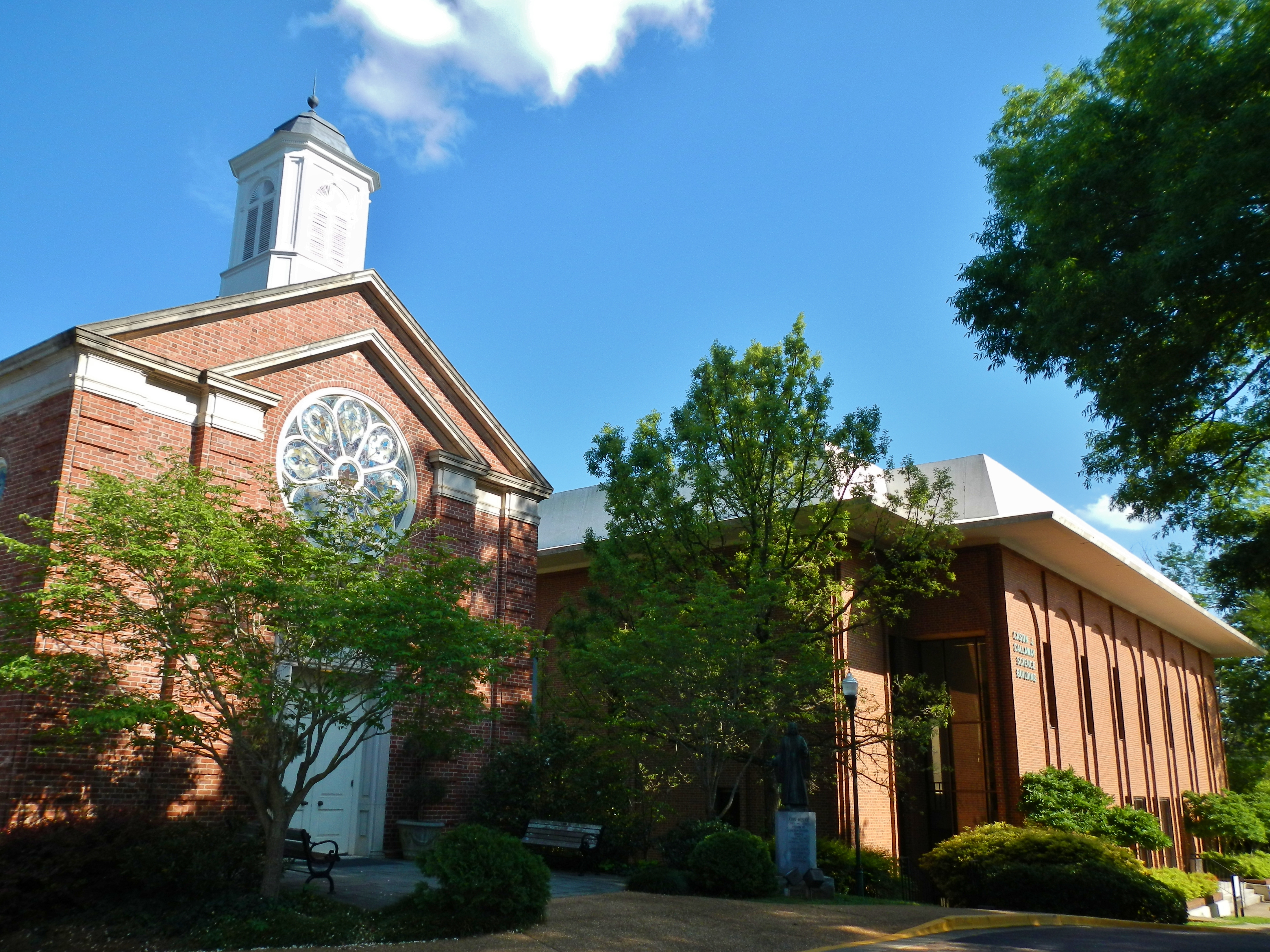 This is a photo of the chapel (left) and the Carson J. Callaway Science Building (right) on the campus of LaGrange College in LaGrange, Georgia.